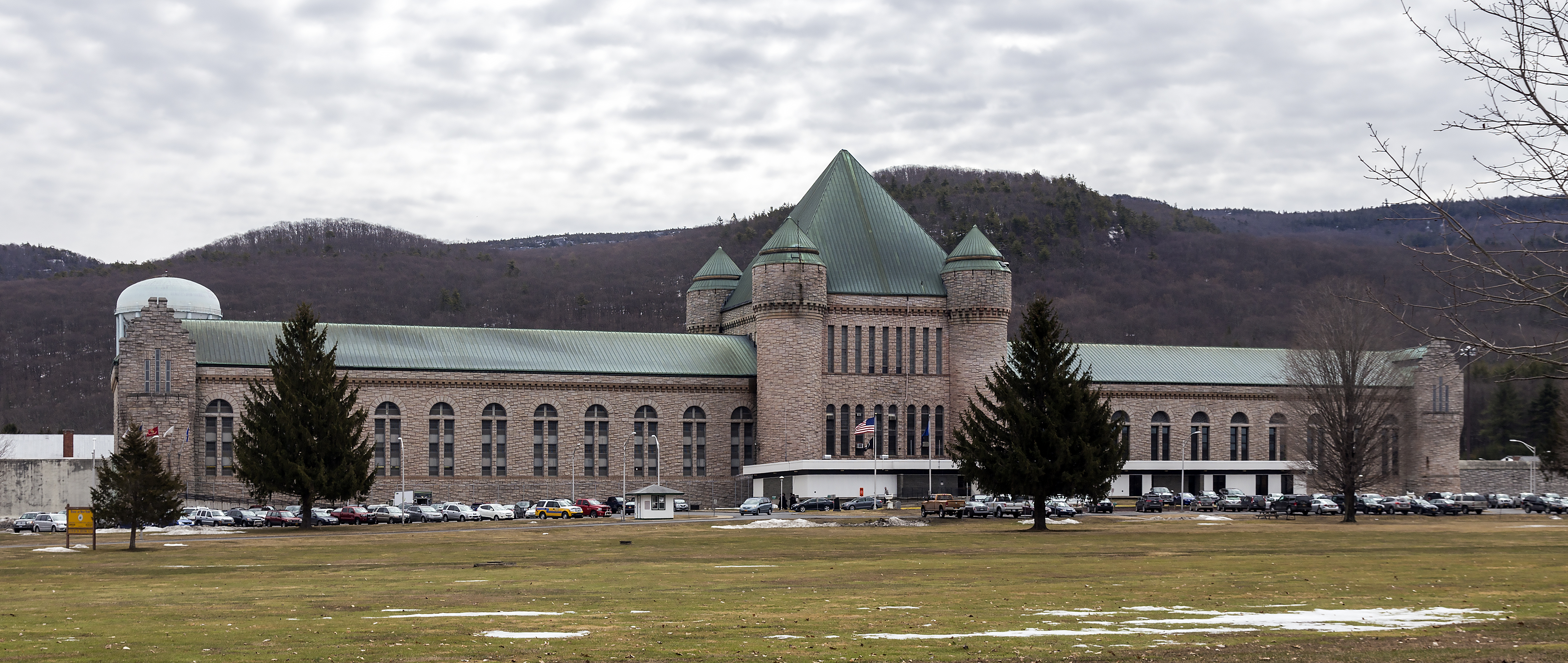 Eastern Correctional Facility near Ellenville, New York, USA